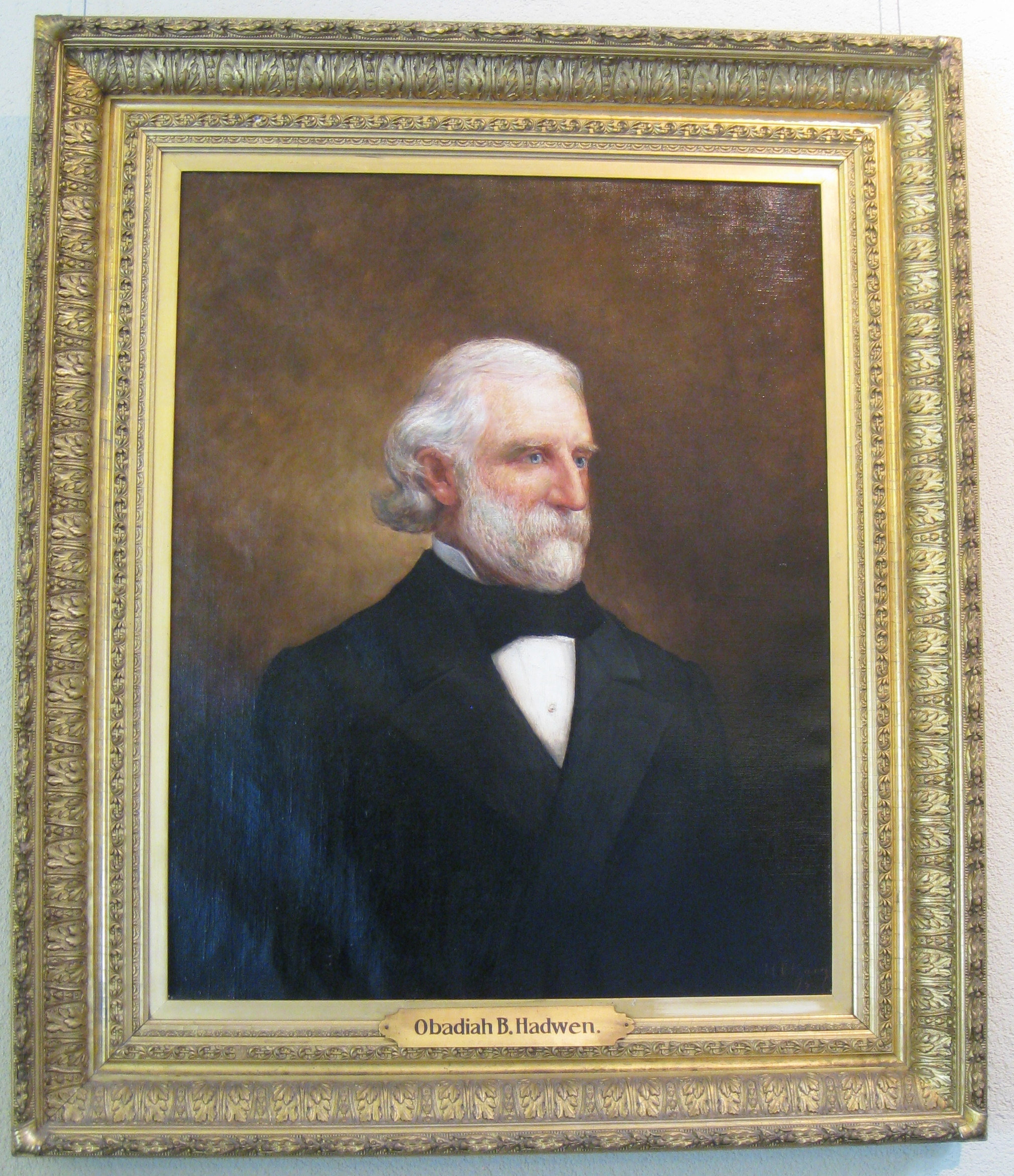 Portrait of Obadiah Brown Hadwen (August 2, 1824 - 1907), horticulturist active in Worcester, Massachusetts. Portrait is currently displayed by the Tower Hill Botanic Garden, Boylston, Massachusetts, USA.